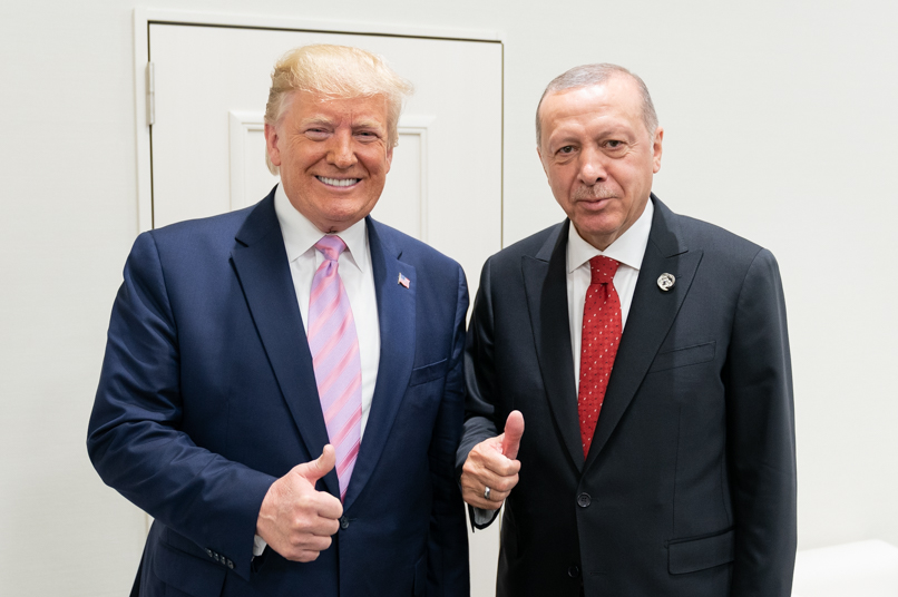 President Donald J. Trump talks with President of the Republic of Turkey Recep Tayyip Erdogan in the leaders lounge at the G20 Japan Summit Friday, June 28, 2019, in Osaka, Japan. (Official White House Photo by Shealah Craighead)